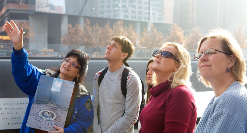 Guided Tour at National September 11 Memorial in New York City